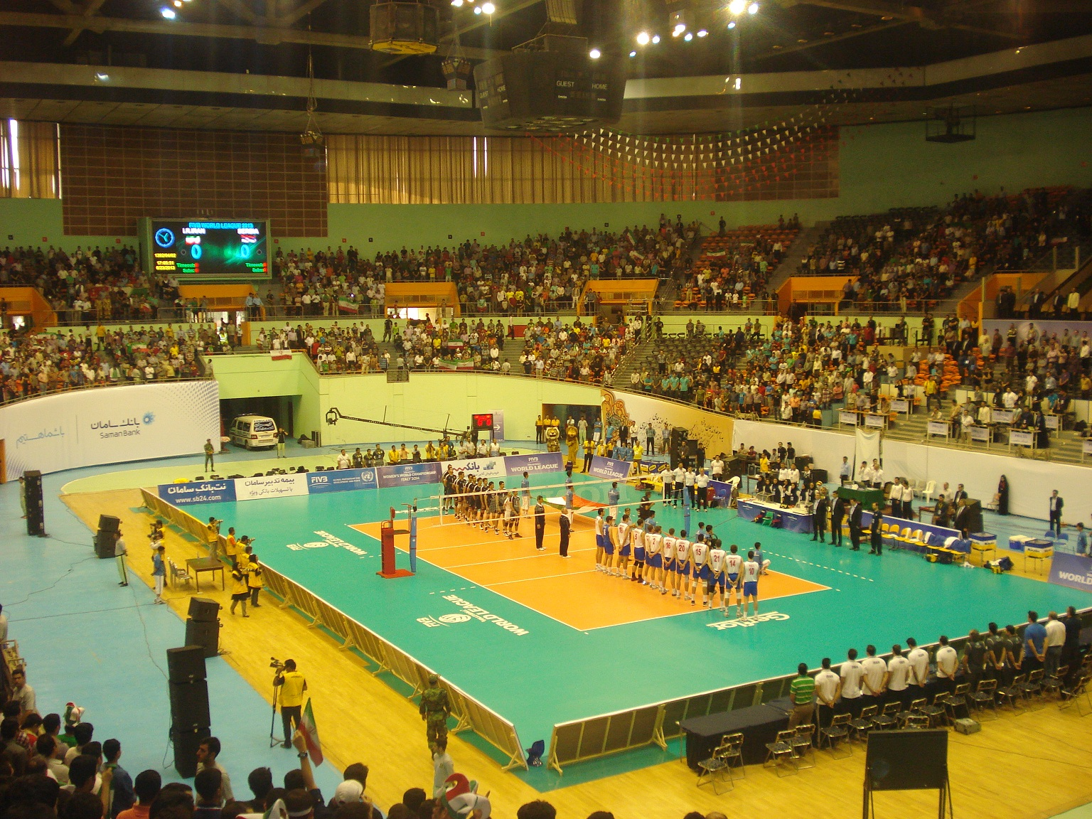 Azadi Indoor Stadium, Second Iran-Serbia match, 2013 World League First Round